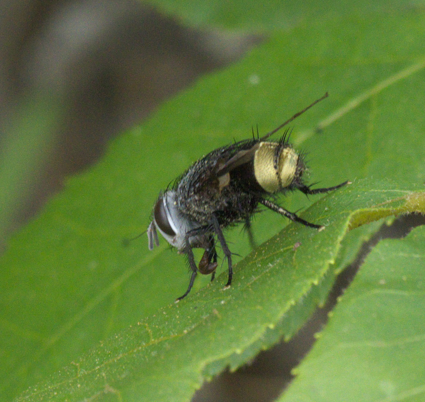 Belvosia, Family: Bristle Flies